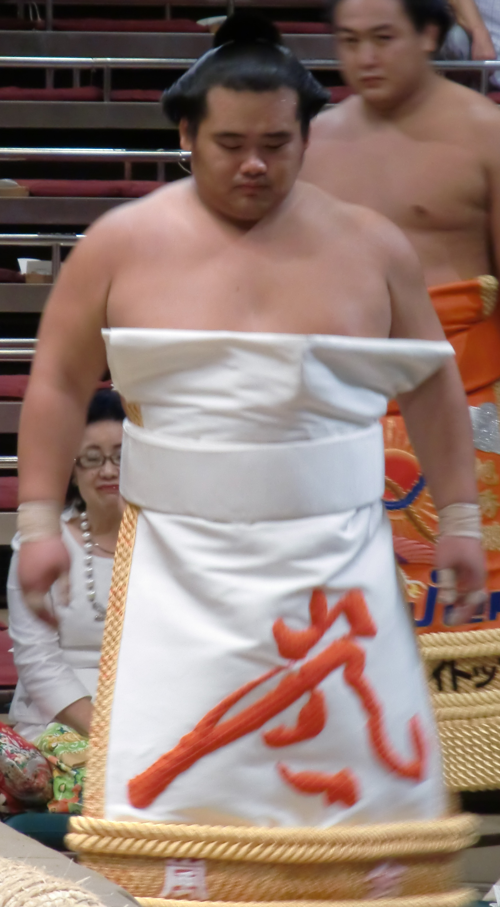 taken at 2011 Sep tournament